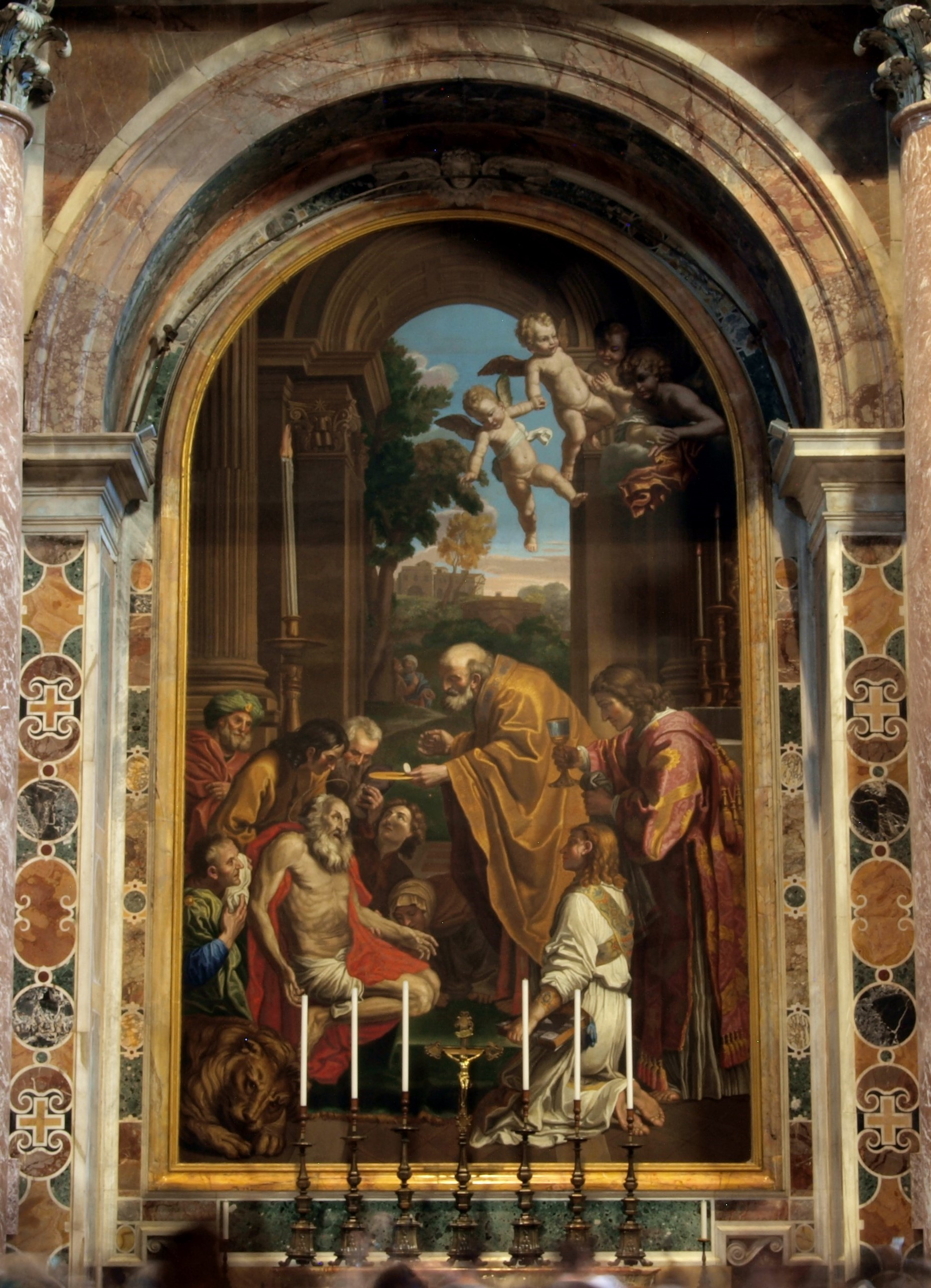 Under the Altar of St. Jerome is the resting site for the body of Bl. John XXIII. Last Communion of St Jerome. Painting by Domenichino, 1614